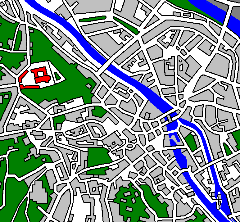 locator map in the German town of Bamberg